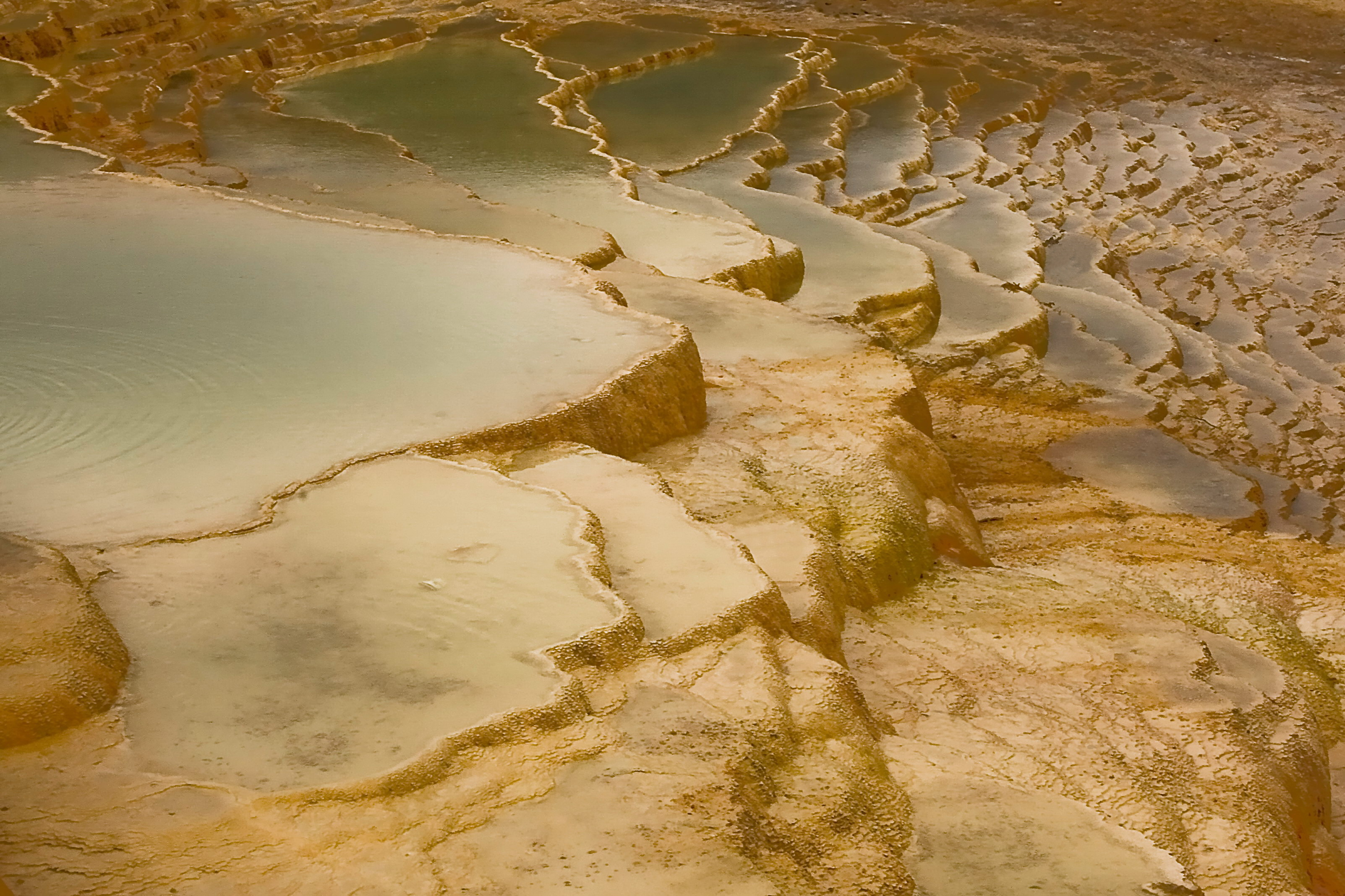 Badab-e Surt, Mazandaran, Iran